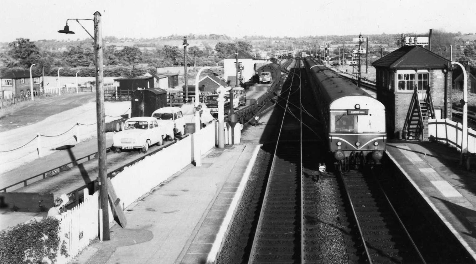 A Swindon cross country DMU enters Pilning high level station working a Bristol to Cardiff local train, 5th May 1961 at 18:30hrs. Car ferry follows this train, passengers may travel in coach at rear of car ferry or in local tran. Pilning low level signal box can be seen to the extreme left.